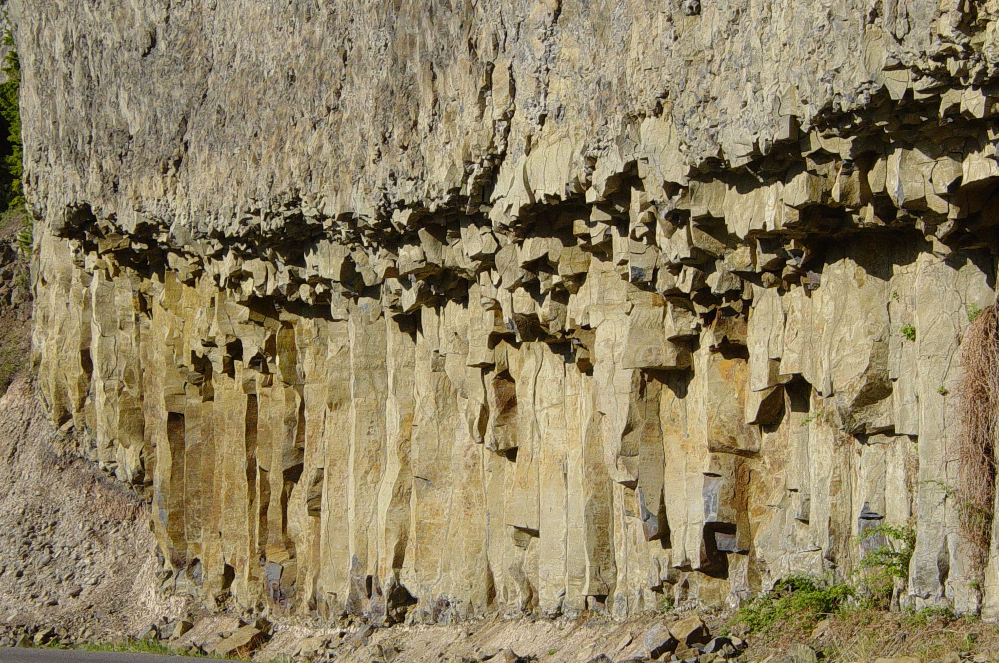 Photo taken in the Yellowstone area.